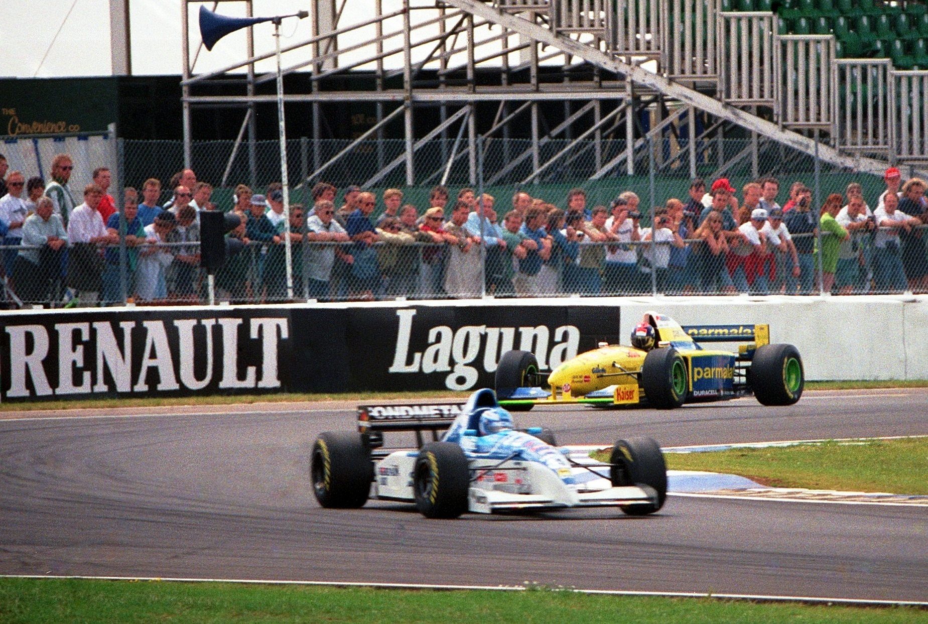 Pedro Diniz - Forti FG01 follows Mika salo - Tyrrell 023 into Brooklands at the 1995 British Grand Prix, Silverstone